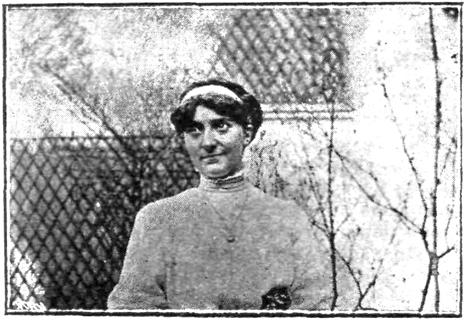 Helene Leune, who gave a speach about xenomania in Parnassos, Athens, Greece in 1911. Photograph from Πινακοθήκη, No. 124-125, June-July 1911, p. 96